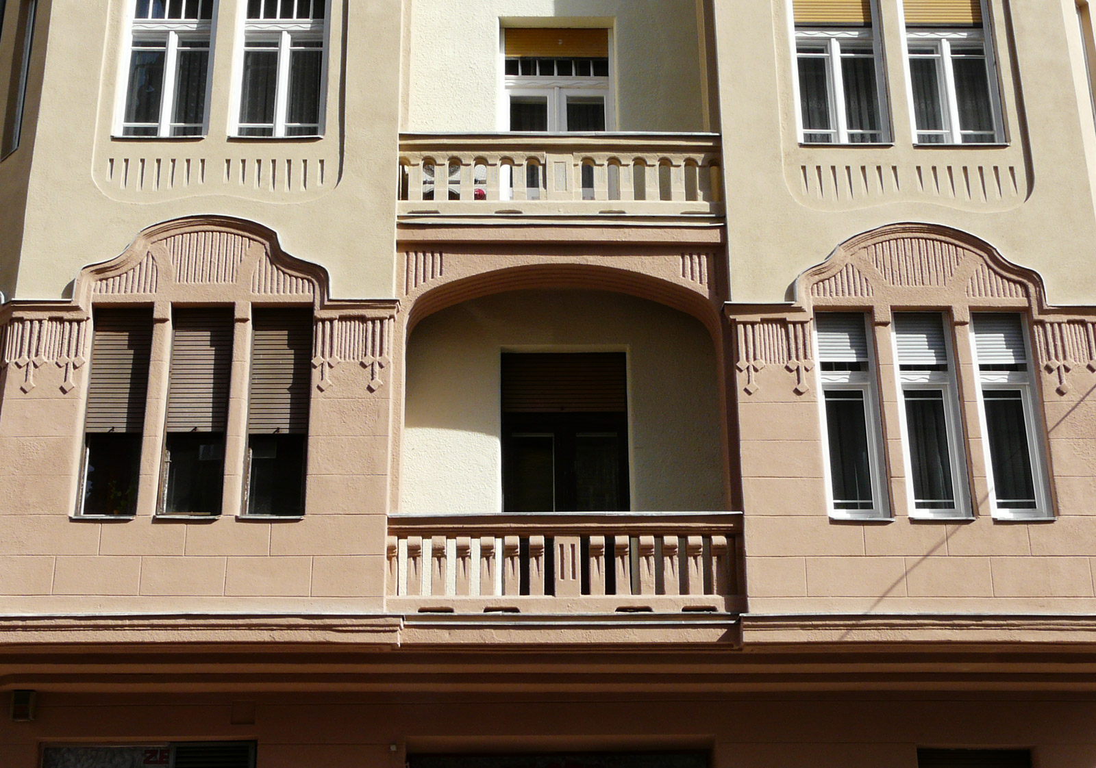 Budapest, 2. distr., Jurányi str.